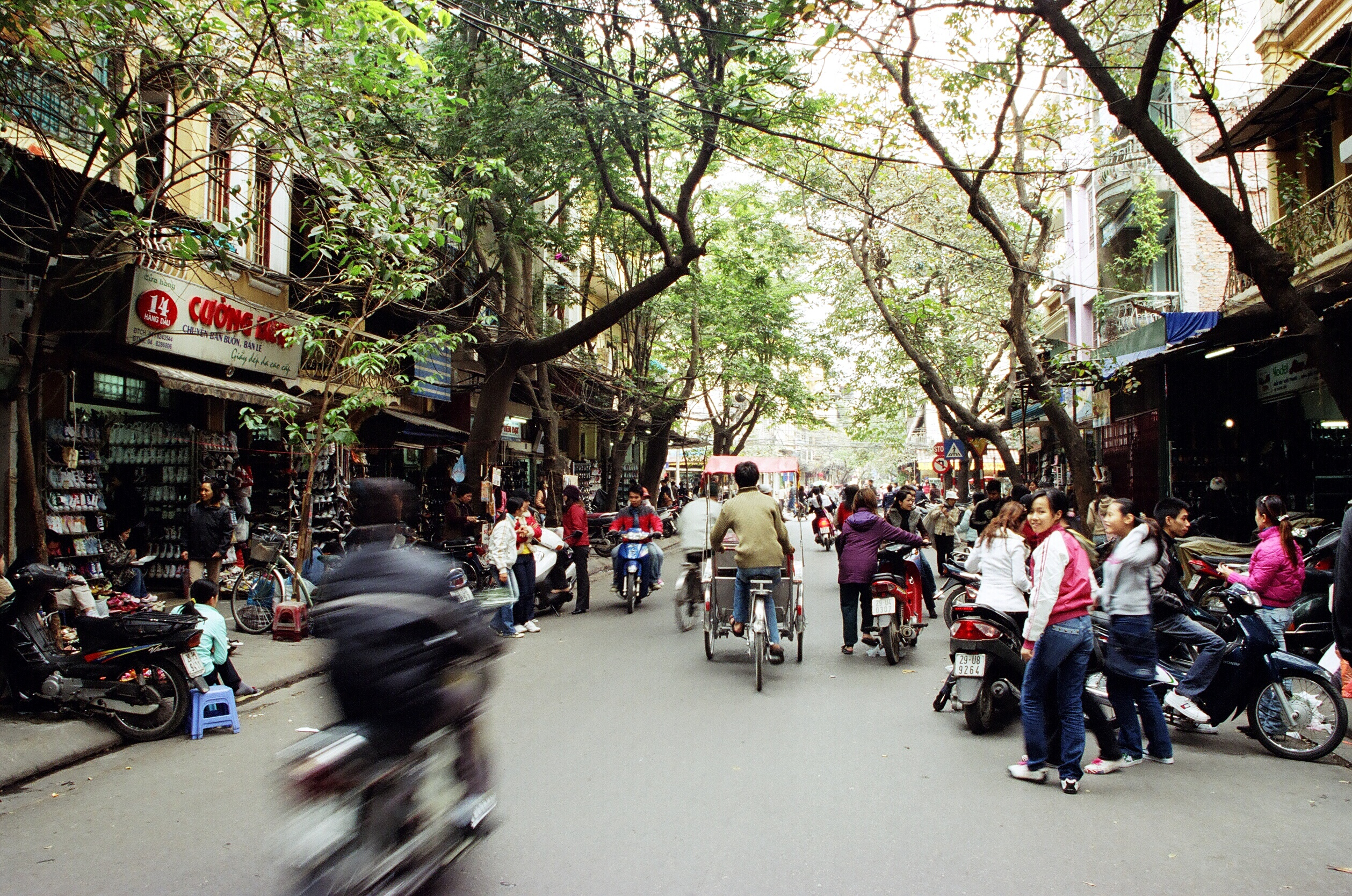 Hang Dau street, Ha Noi